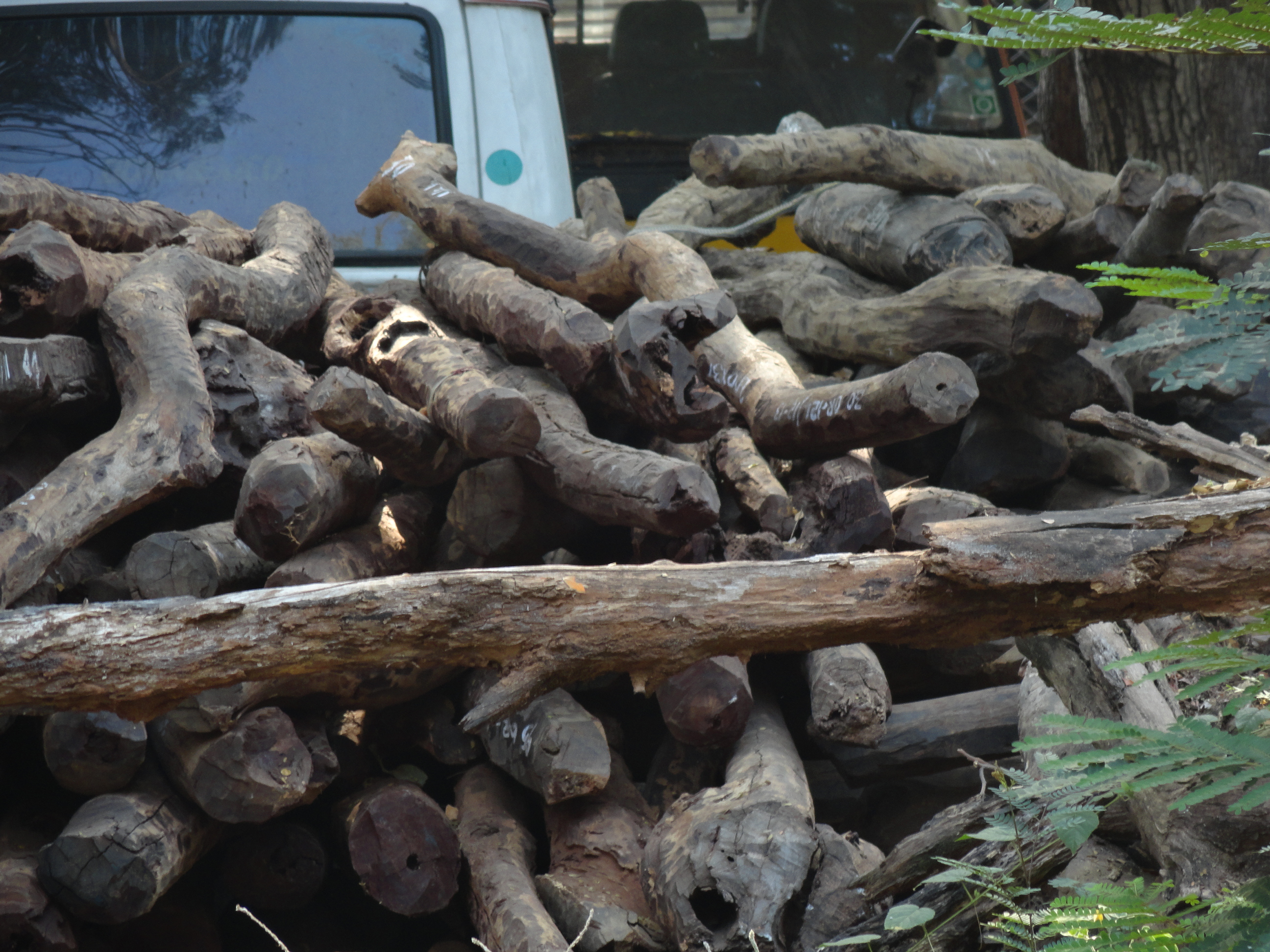 Pterocarpus santalinus red sandalwood logs which are seized were dumped at kapilatirtham, Tirupati